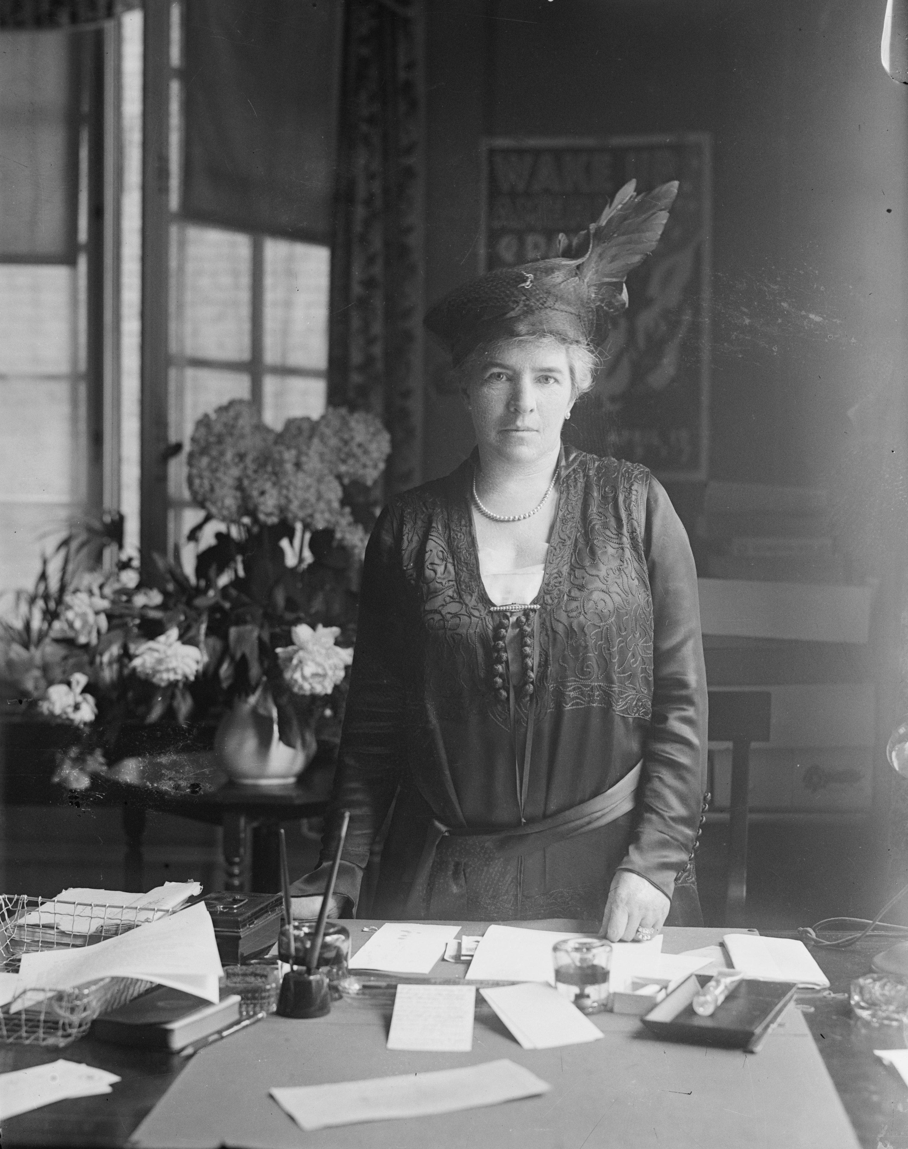 Mrs. E.R. Stettinius. Photograph shows Mrs. Edward Riley Stettinius, (formerly Judith Carrington) head of the Economy League of the Junior Colonial Dames of America, who headed a drive to collect waste paper for sale to benefit the Red Cross during World War I. (Source: Flickr Commons project, 2015 and The Sunday Oregonian, July 1, 1917)